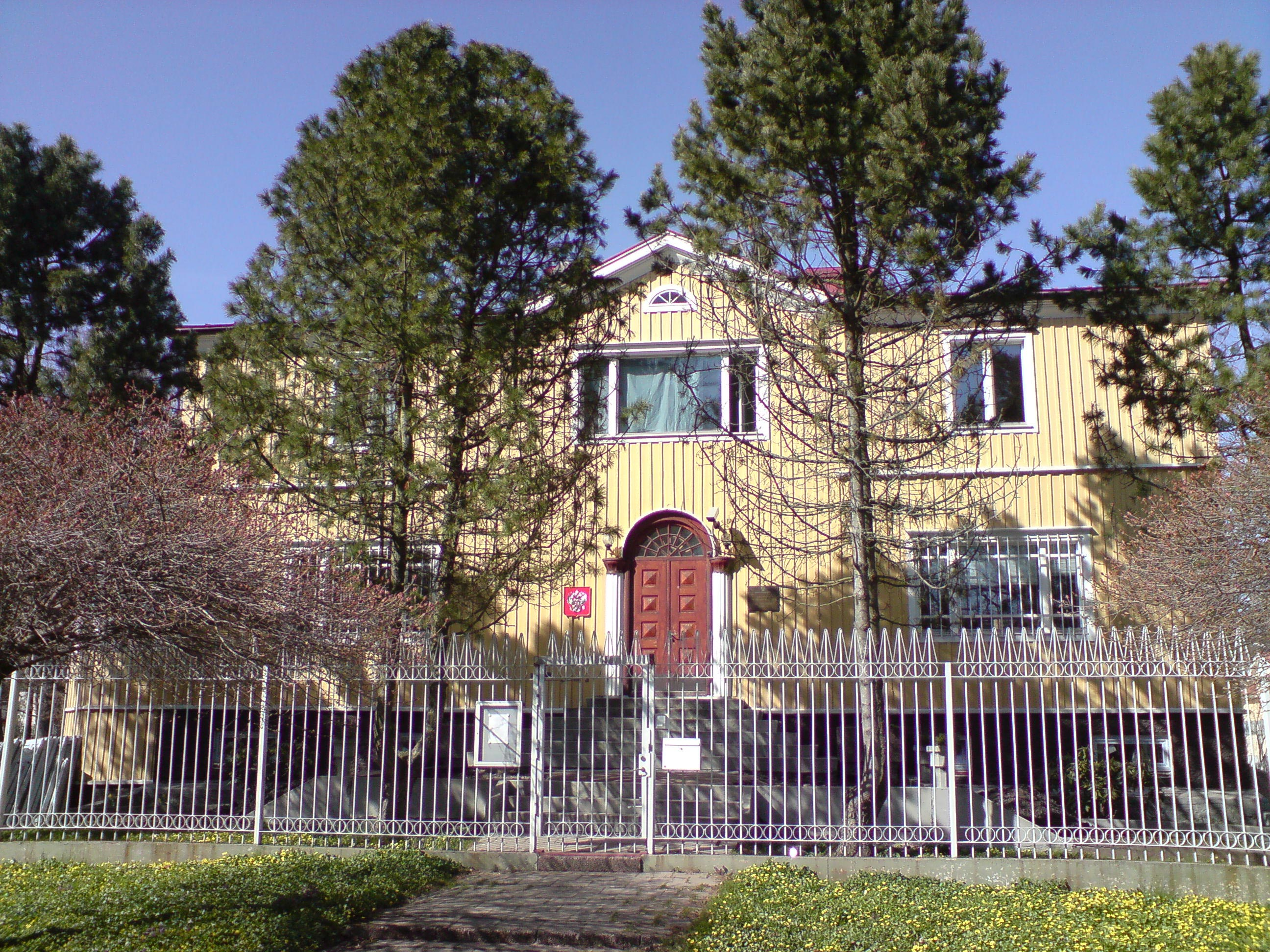 The Russian General-Consulate in Mariehamn, Åland.